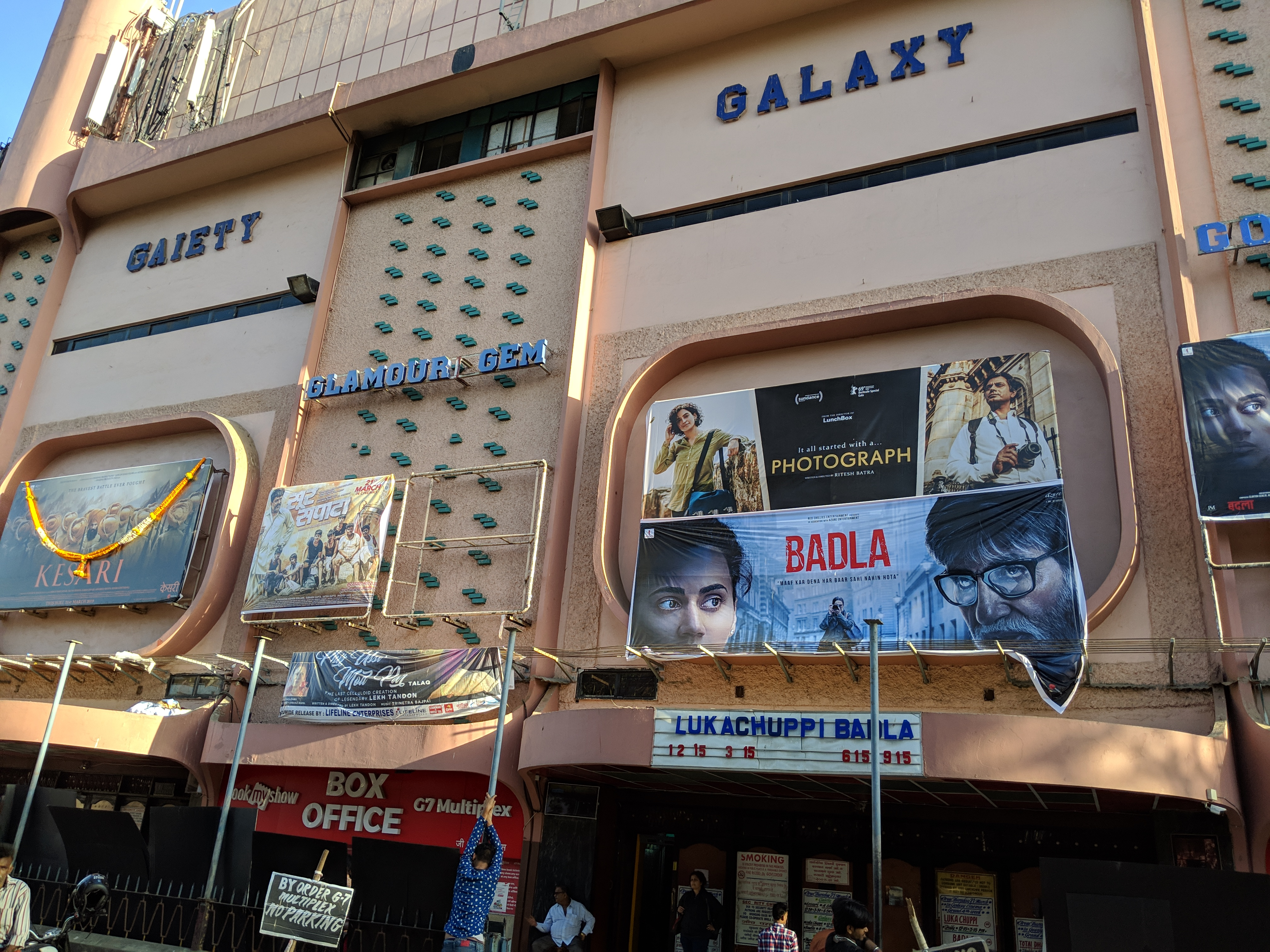 G7 Multiplex (Gaiety Galaxy) one of popular cinema in West Bandra, Mumbai.